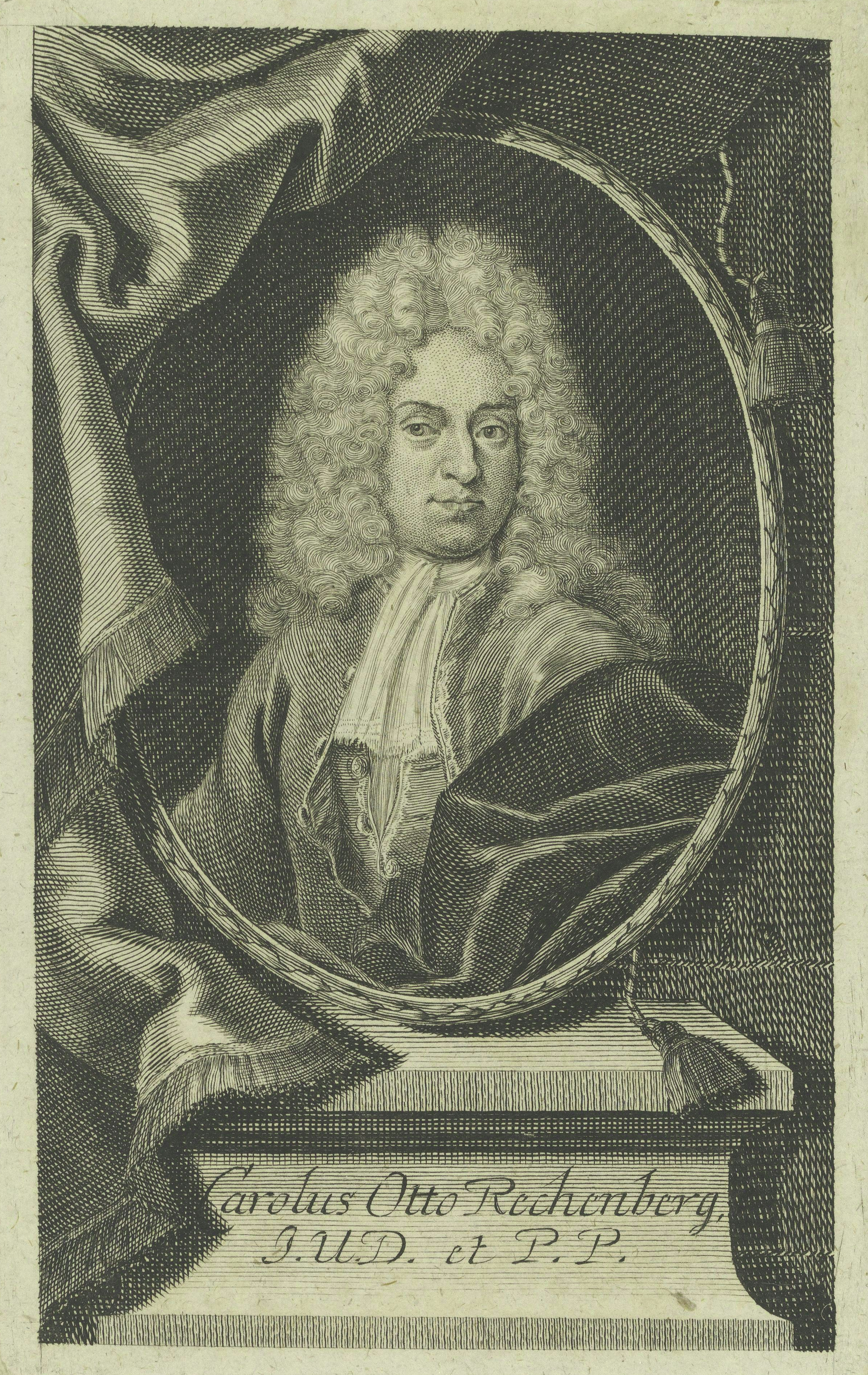 Depicted person: Carl Otto Rechenberg